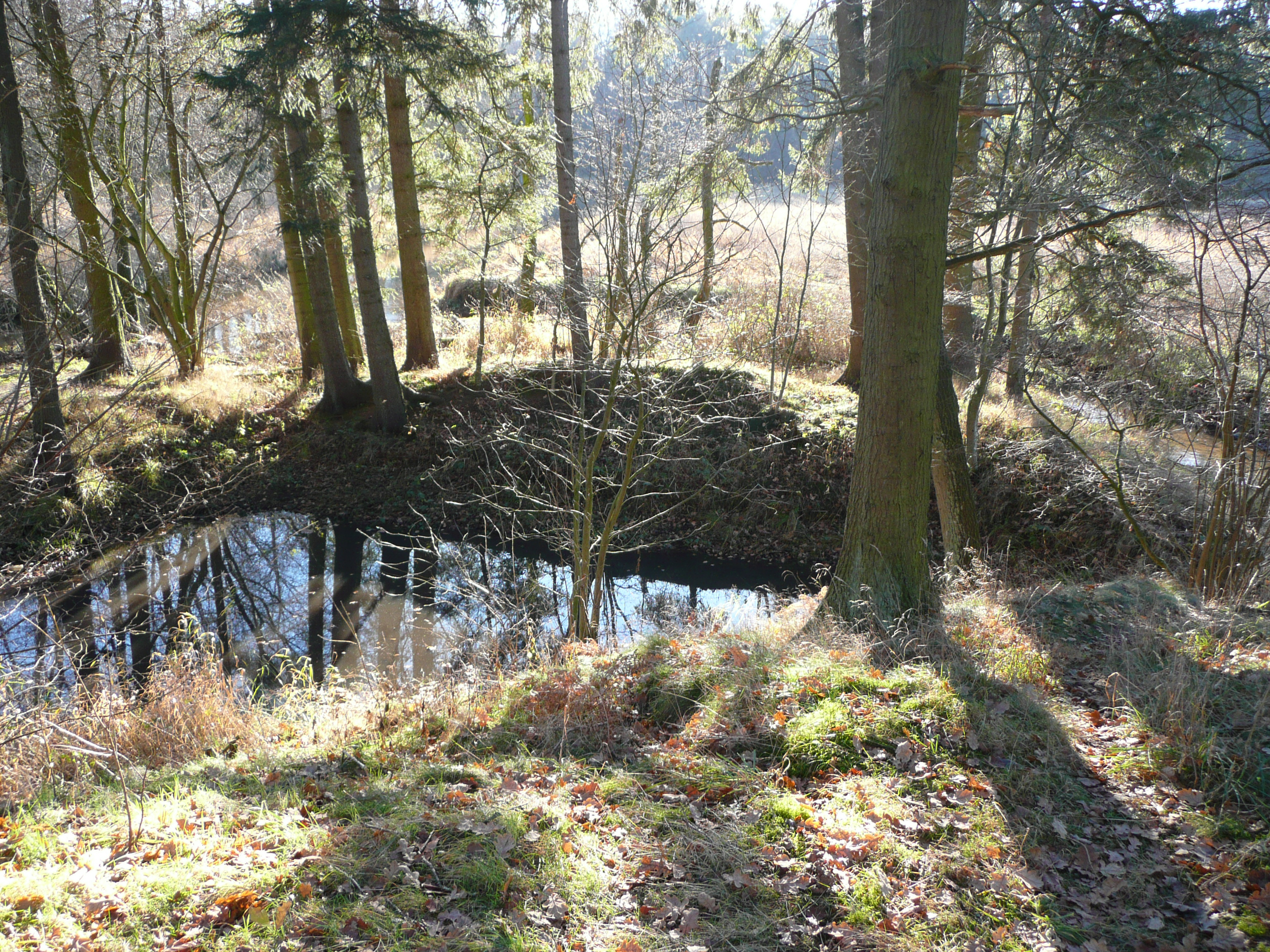 Confluence of the rivers Boehme and Warnau (right) seen from the ancient Huenenburg near Bomlitz, Lower Saxony, Germany